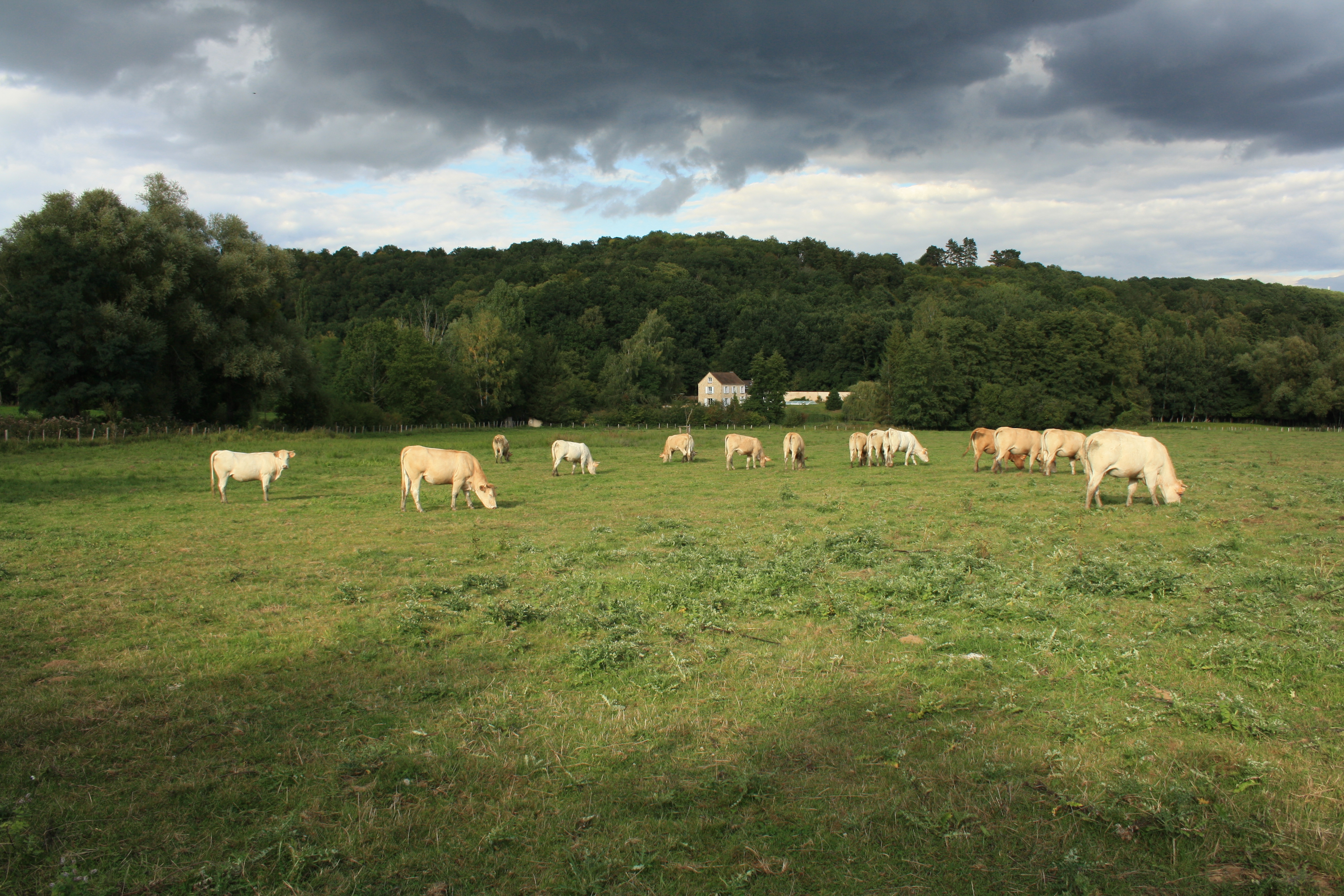 Cows in Saint-Lambert-des-Bois (Yvelines, France).